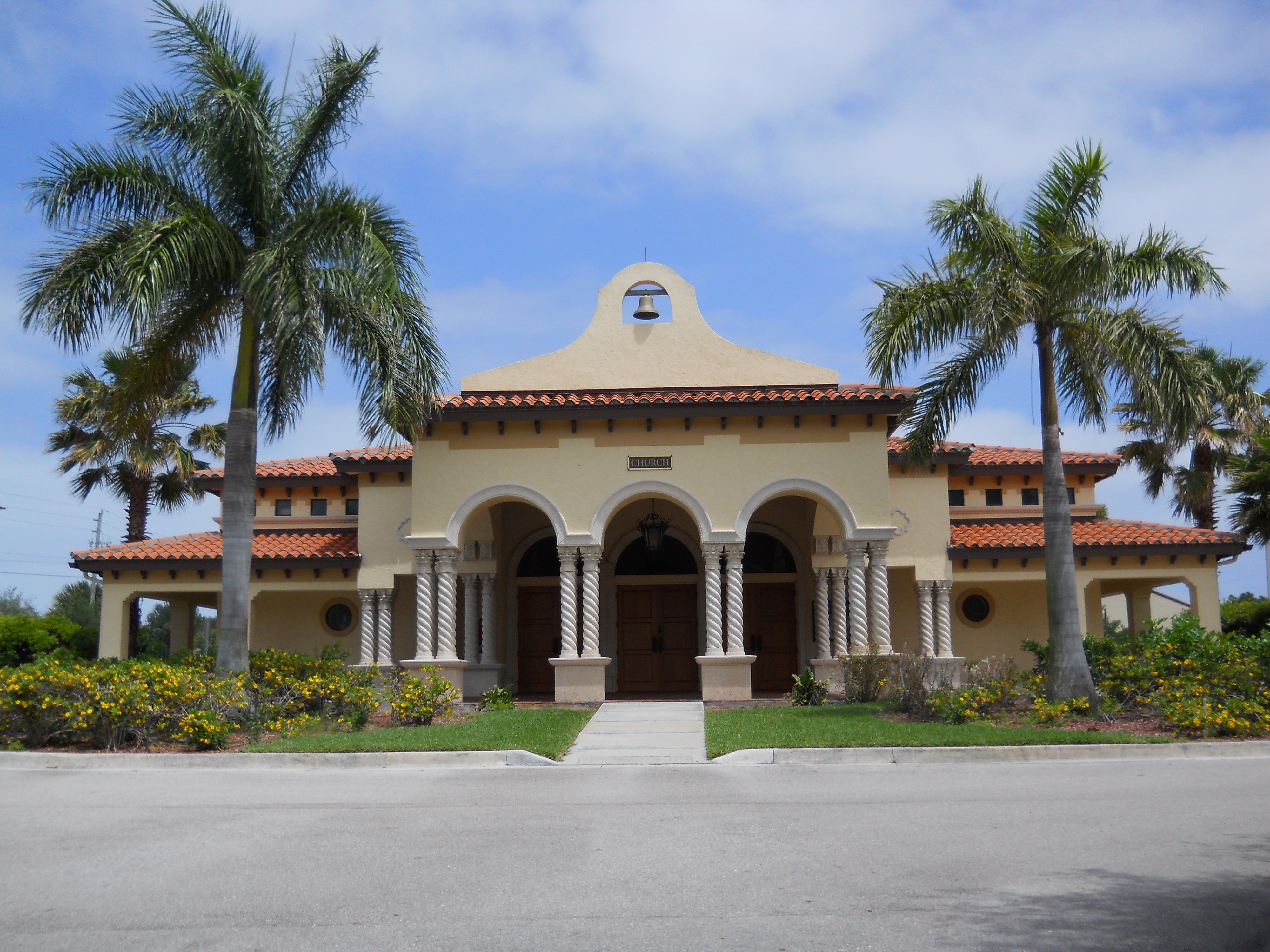 St. Martin de Porres Catholic Church, Jensen Beach, Martin County, Florida, front (west) elevation